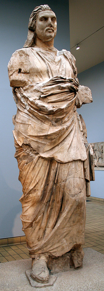 Statue believed to represent a member of the Hekatomnid dynasty, ca. 350 BC. On display in the British Museum, London.